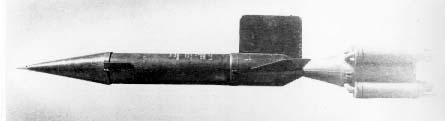 "Private F" rocket designed by the Jet Propulsion Laboratory for experimental launch tests, 1945.